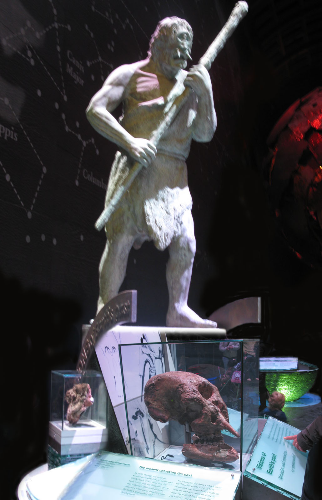 Free picture of the Pygmy Sicilian Elephant skull and the "Cyclop" Model of the Natural History Museum of London